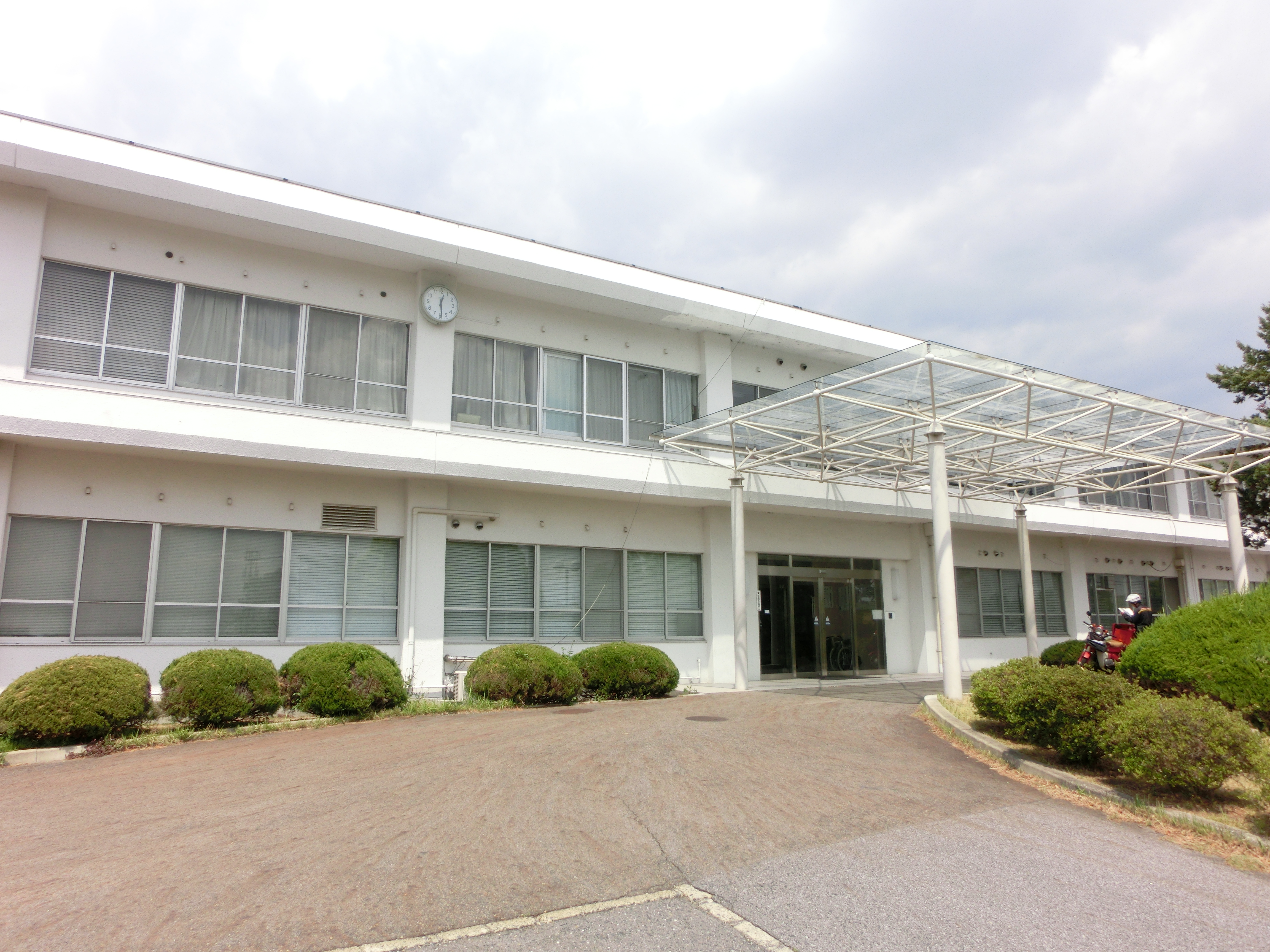 National Hospital Organization Toyohashi Medical Center